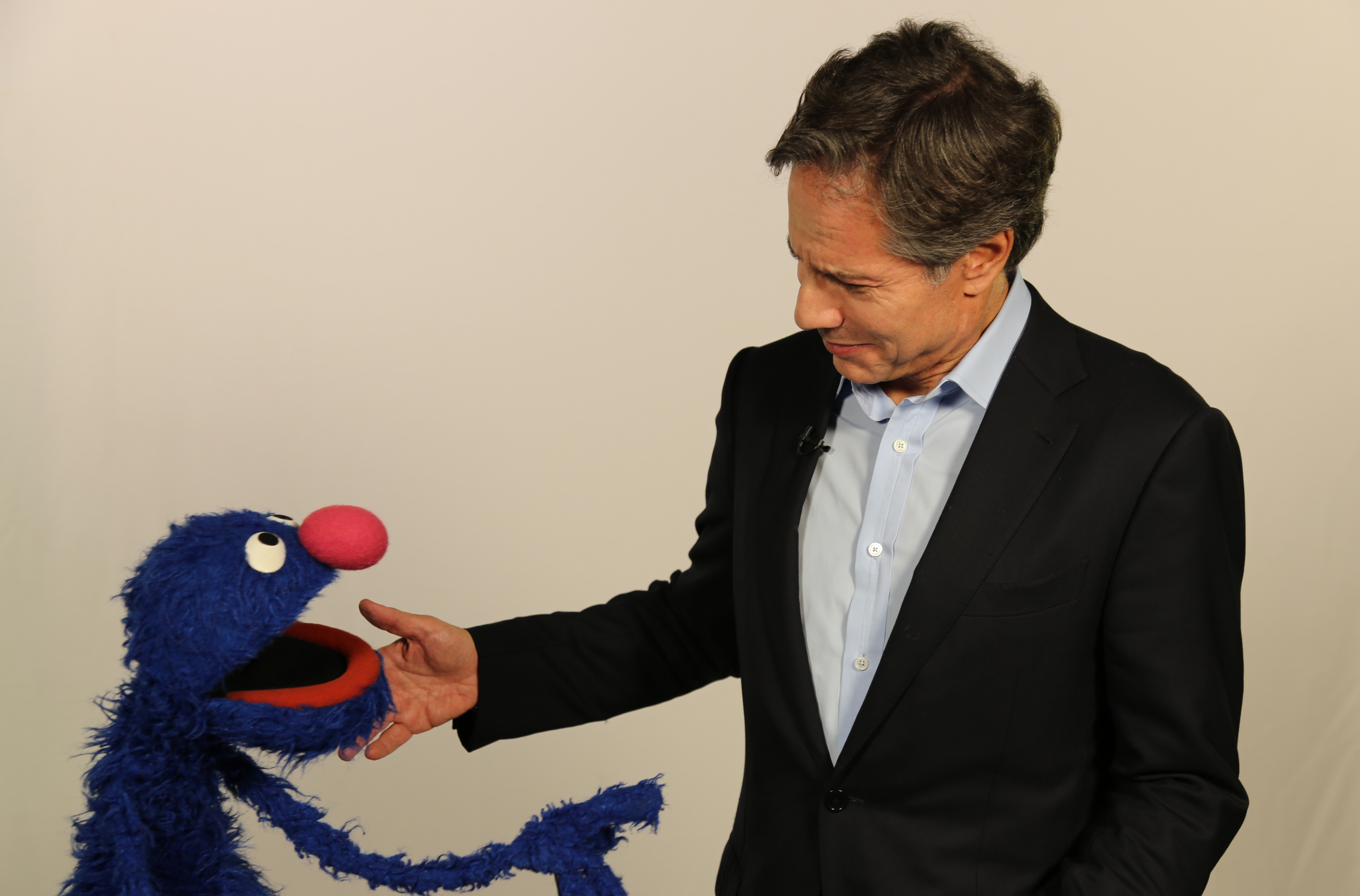 Deputy Secretary of State Antony Blinken meets with Sesame Street's "Grover" to talk about refugees at the United Nations in New York City, New York on September 19, 2016. [State Department Photo/Public Domain]